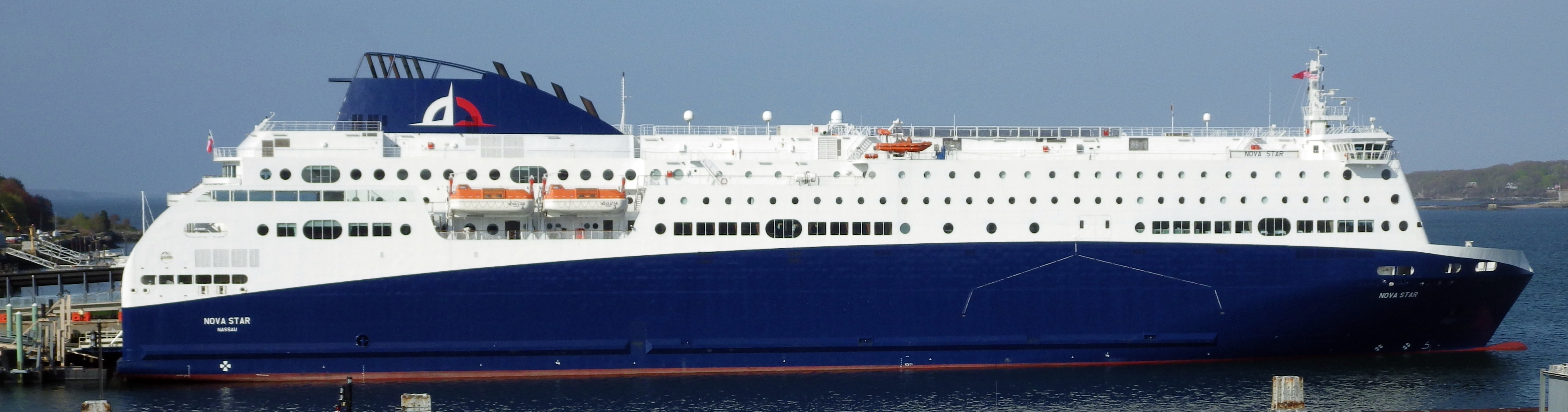 MV Nova Star in Portland, Maine, USA. Preparing for first ferry service run to Yarmouth, Nova Scotia, Canada on 15, May, 2014.